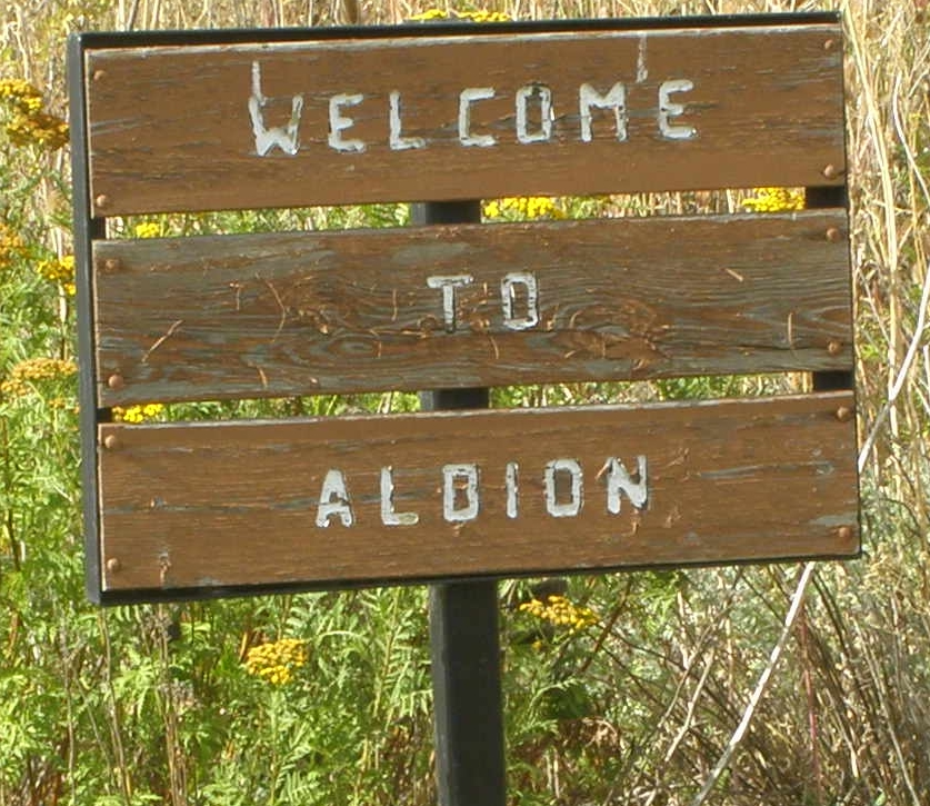 Nothing too fancy. I took a side trip to that little burg north of Pullman, WA. Albion was the destination of my first long bike ride. Rode there with my brother at the start of my 7th grade year. I lived in Pullman back then. I think it's about 7 miles from Pullman.